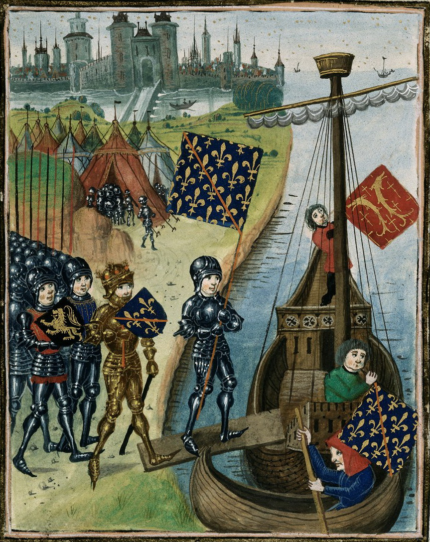 Mahdian Crusade 1390: The raising of the siege of Mahdia and the crusaders leaving Africa. (British Library, Harley 4379 f. 104v)